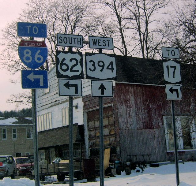 Signpost junction showing NY State Route 394 and U.S. Route 62, with NY State Route 17/Interstate 86 available via a connector